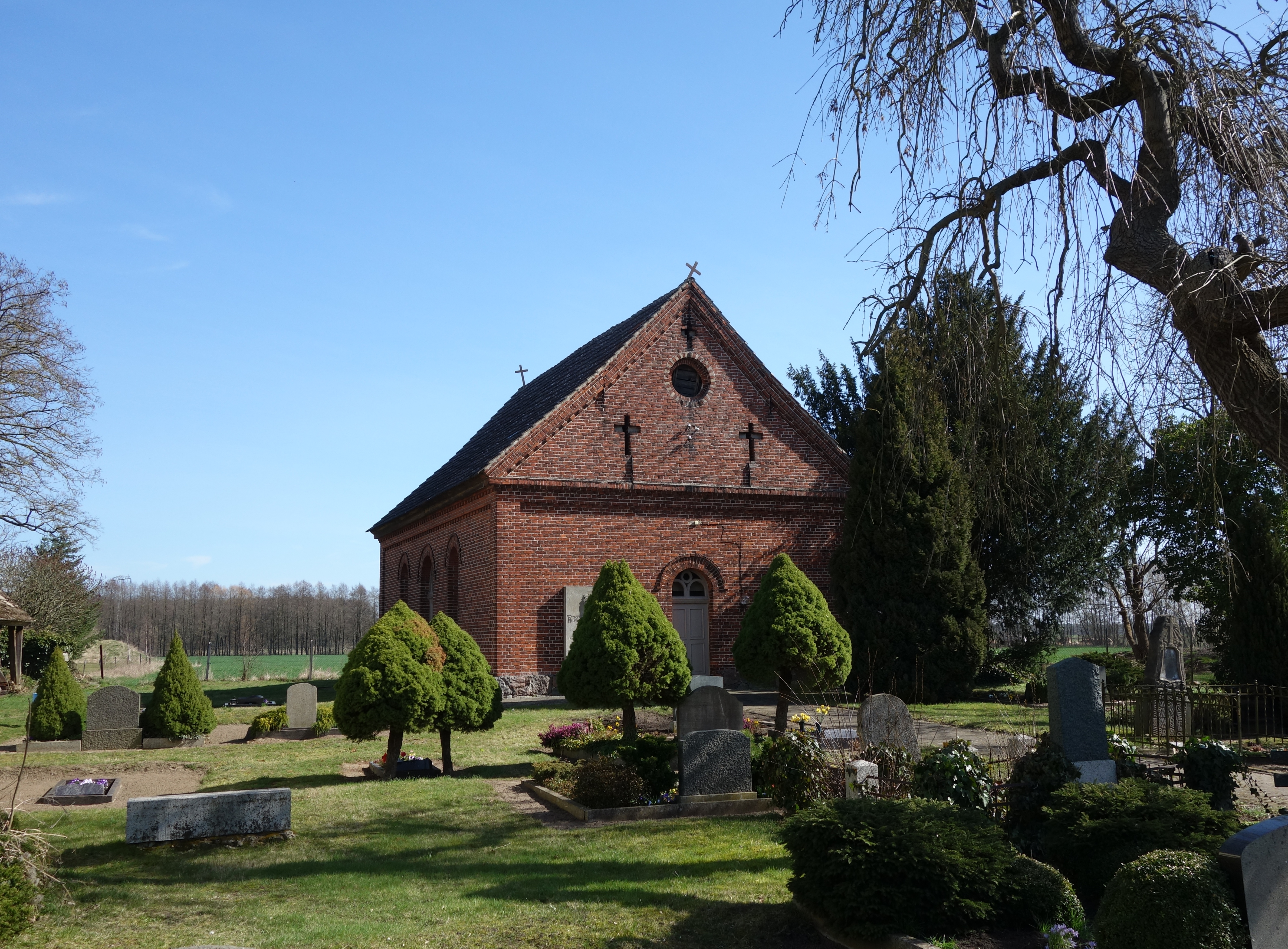 Western view of Leddin church, Neustadt (Dosse) municipality, Ostprignitz-Ruppin district, Brandenburg state, Germany